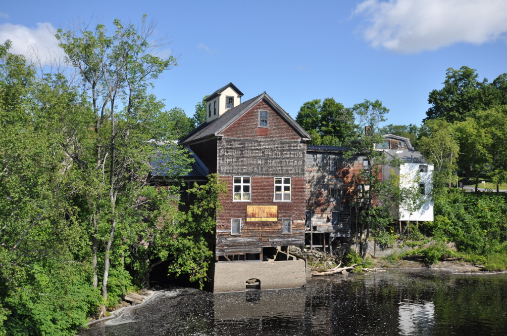 American Woolen Company Foxcroft Mill, Dover-Foxroft, Maine.